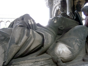 Cardinal McCabe's tomb in glasnevin cemetery, Dublin. my photo. no c/r